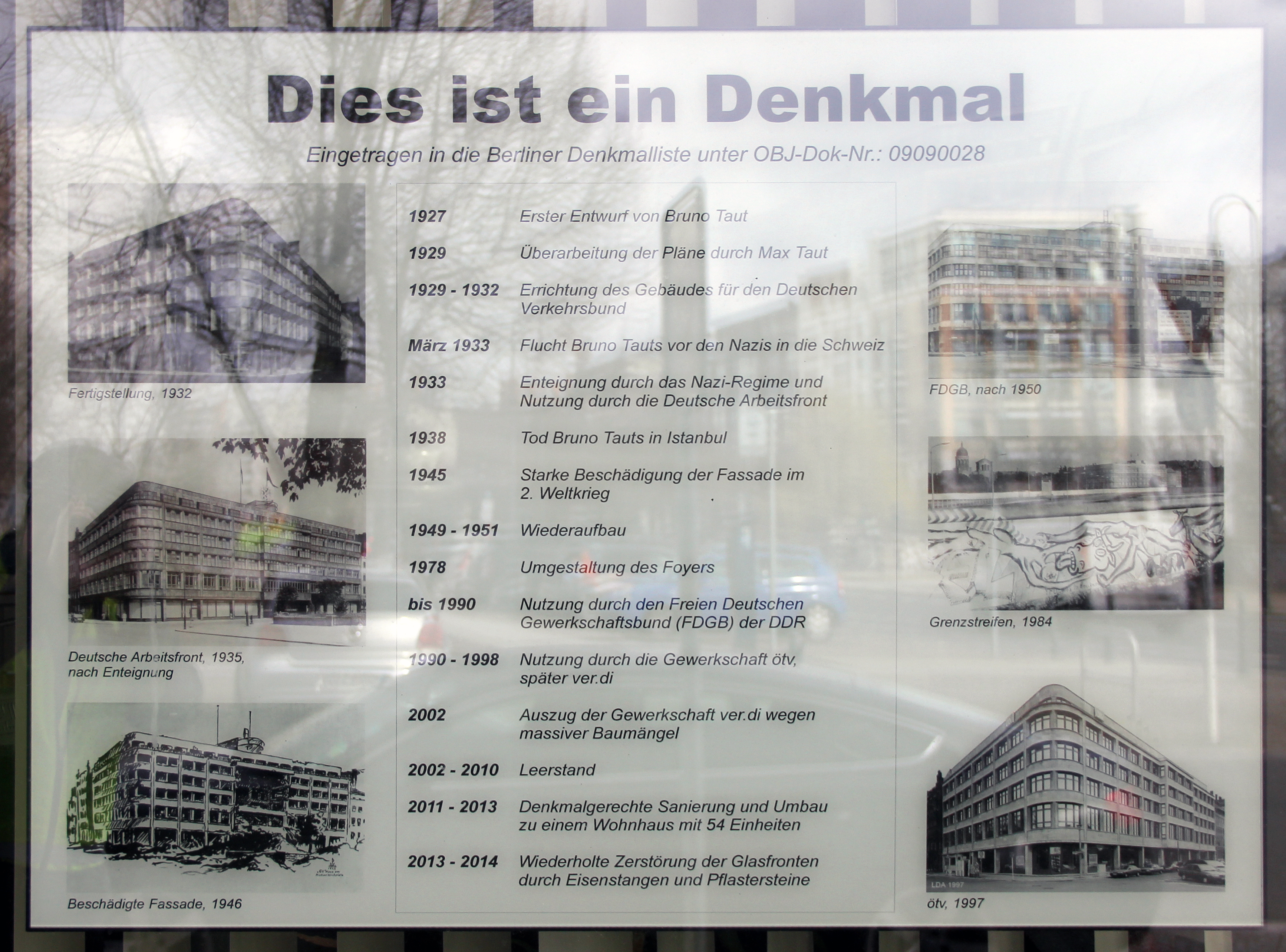 Memorial plaque, Haus des Deutschen Verkehrsbunds, Engeldamm 70, Berlin-Mitte, Deutschland